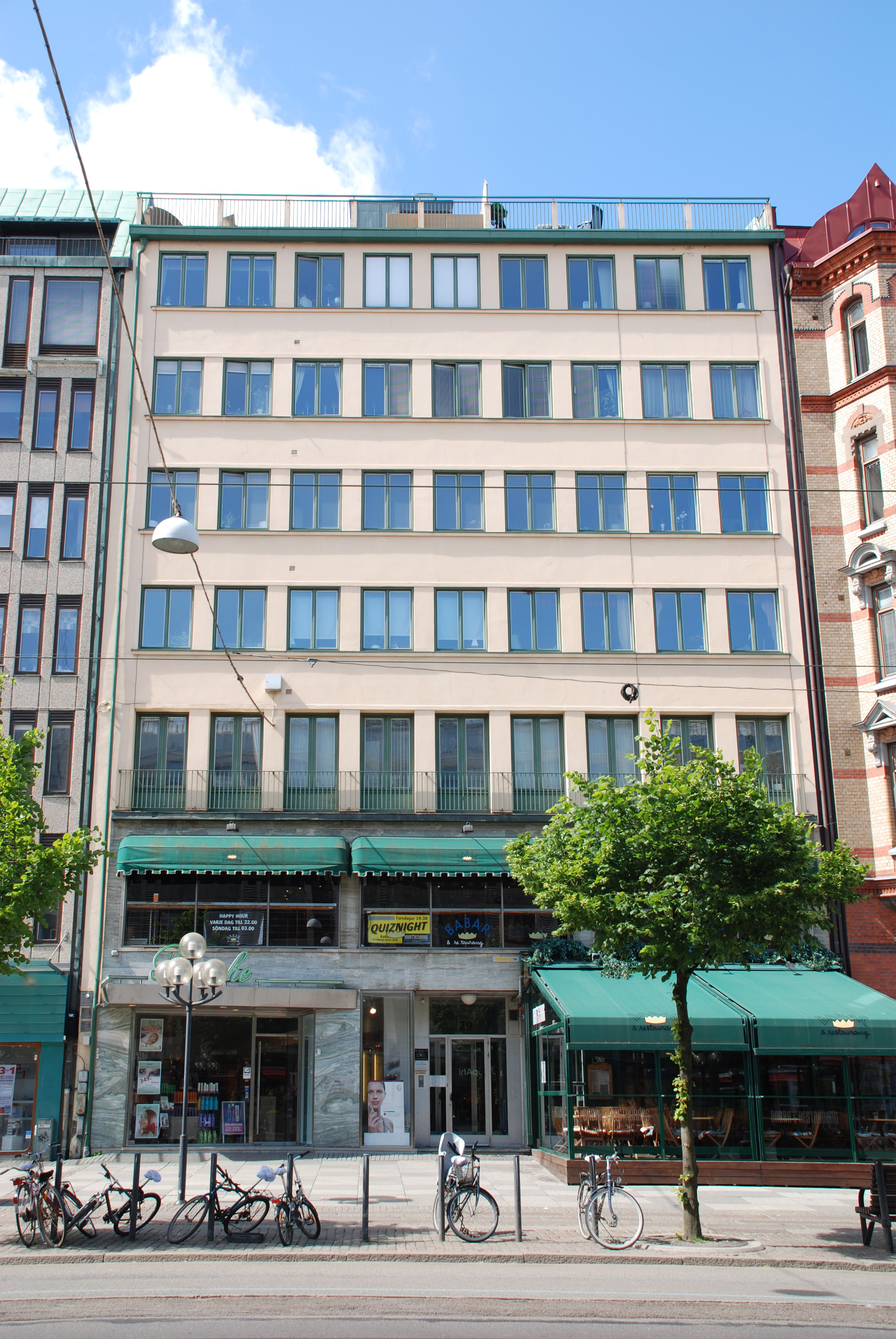 Kungsportsavenyn 29, quarter 57 Örbyhus in city part Lorensberg in Göteborg.